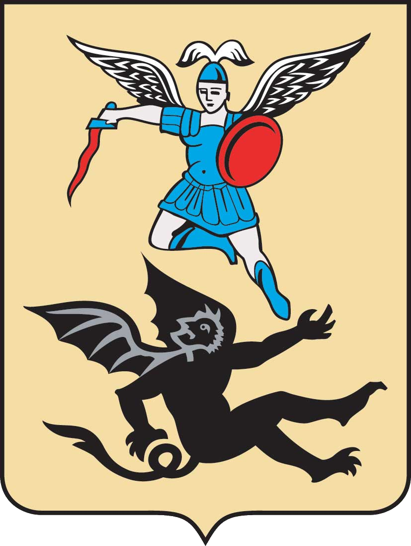 Arkhangelsk (Arkhangelsk oblast), coat of arms (1998)